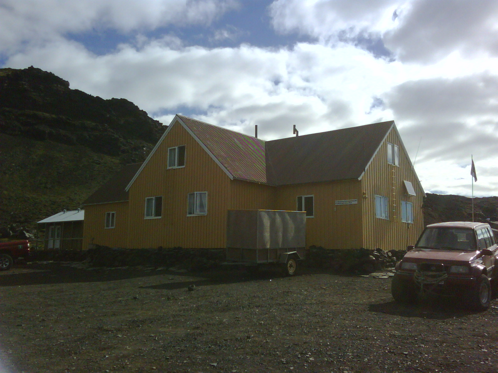 Sigurðarskáli hut